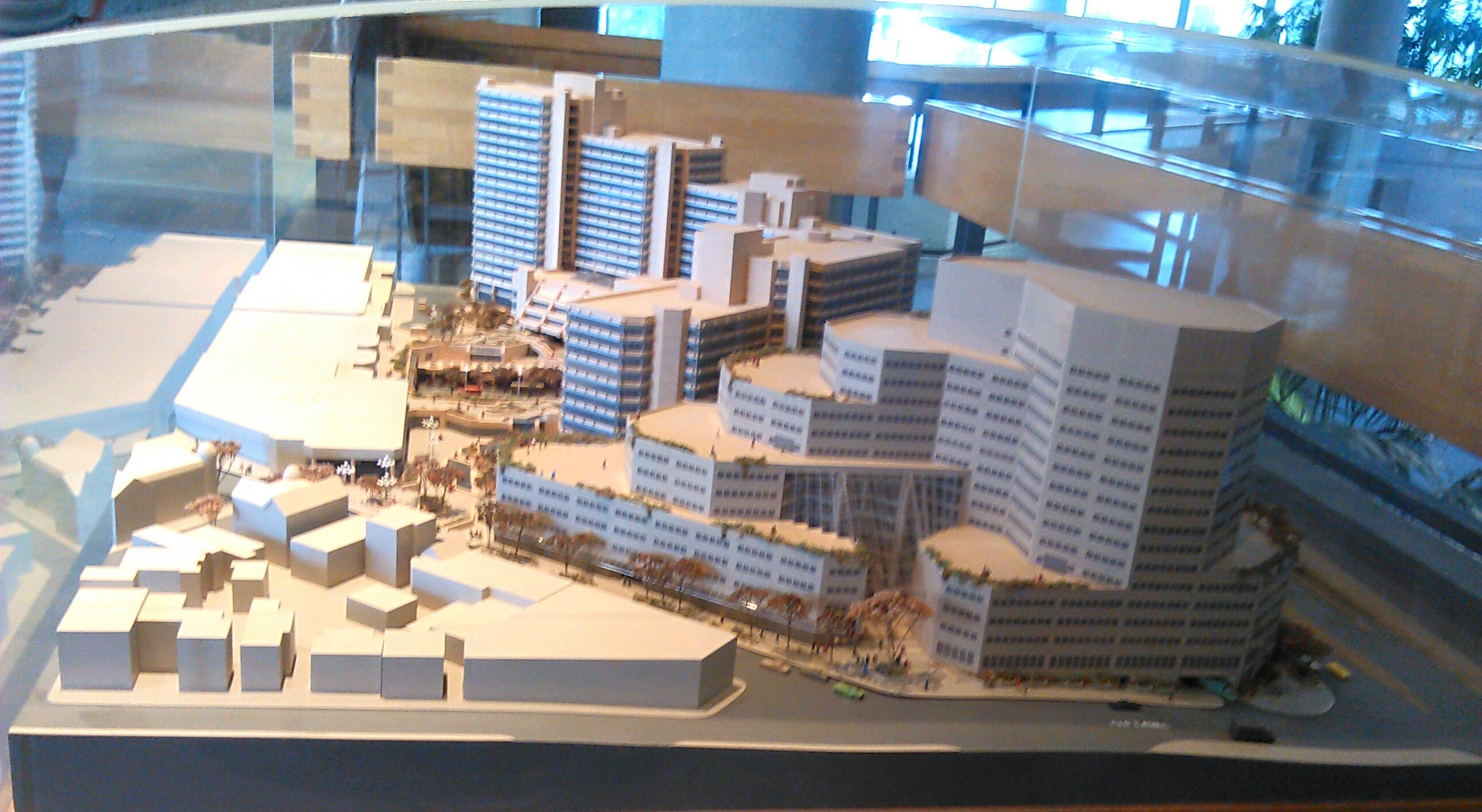 Model (c 1970) of Place du Portage, which is a large office complex in the Hull sector of Gatineau, Quebec, Canada, situated along Boulevard Maisonneuve and facing the Ottawa River. It is owned and occupied by the Federal Government of Canada. The model is on display.